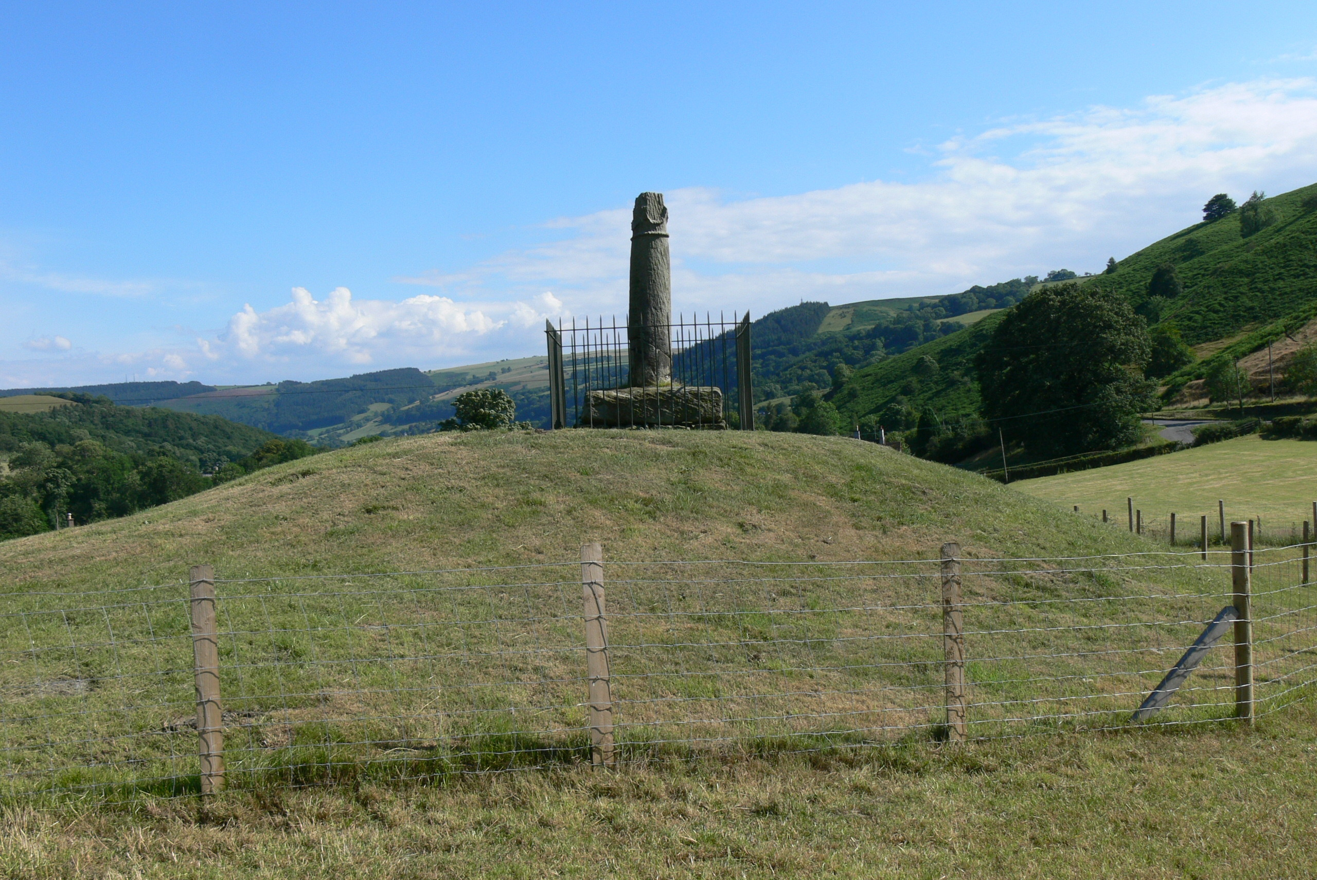 Llangollen ( Wales ). Eliseg's pillar.